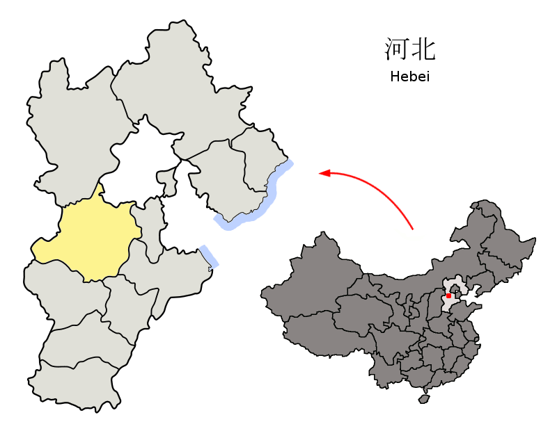 Location of Baoding Prefecture (yellow) within Hebei Province of China 保定市在中华人民共和国河北省的位置。 繁體